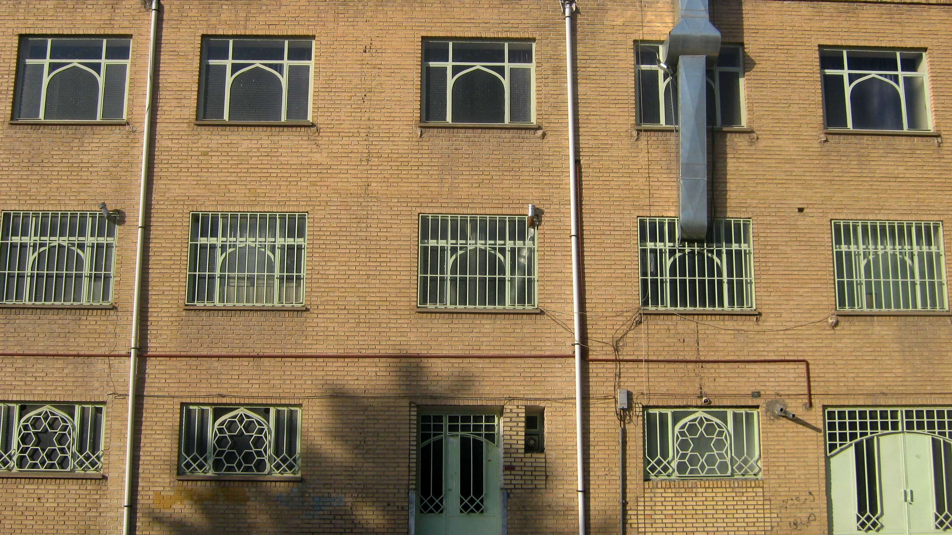 Windows - Owqaf & Chariaty affairs office - Nishapur